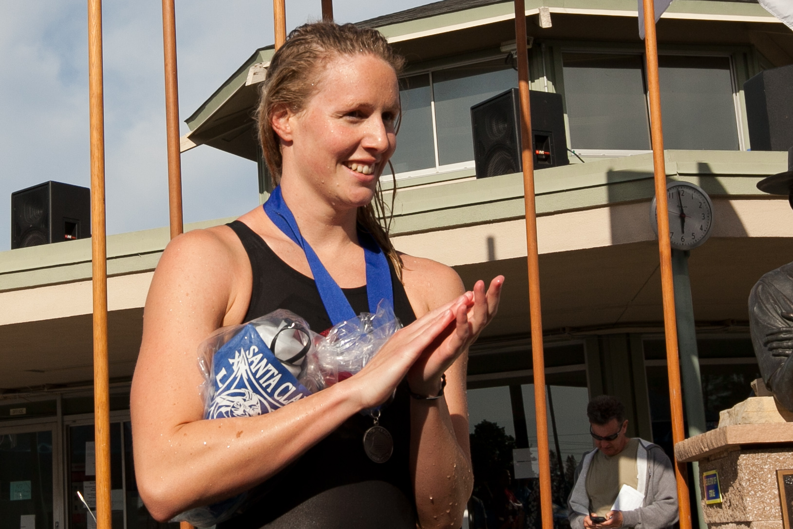 Bronte Barratt after finishing second in the 200 meter freestyle at the 2011 Santa Clara Grand Prix. For publication rights, contact JD Lasica at